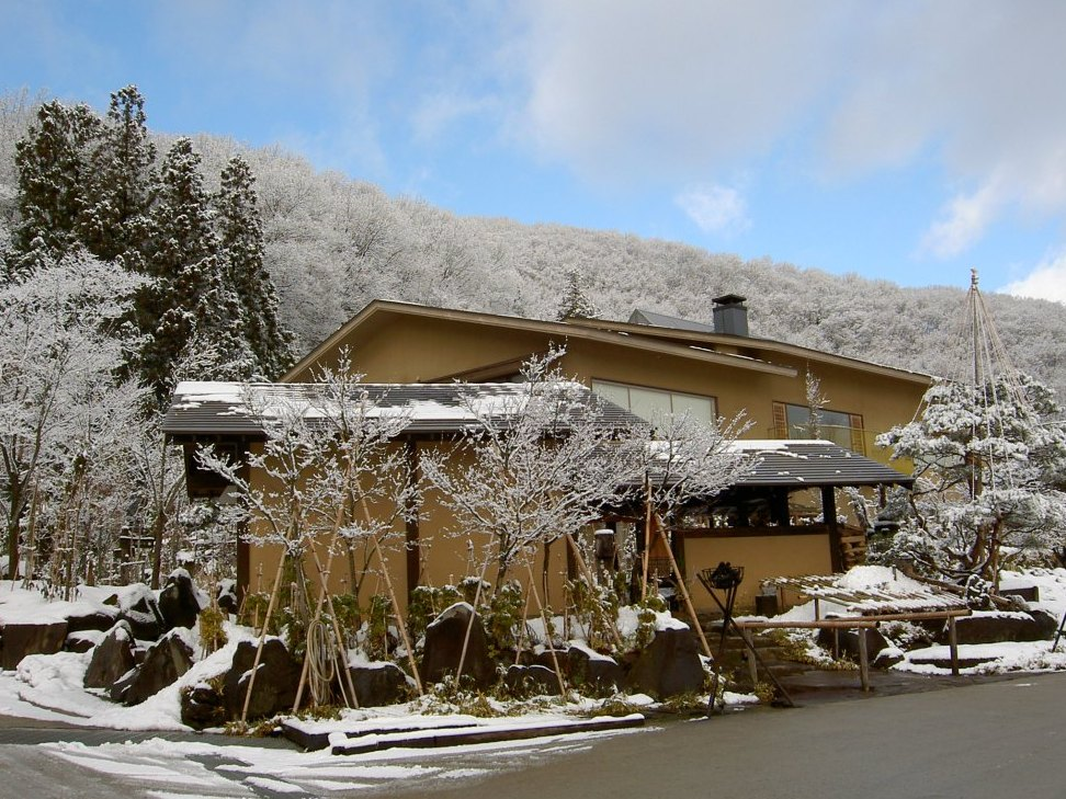 Meigetsuso, an elegant ryokan (Japanese-styled inn) with onsen or spas. This 20-guest unit ryokan is located in Kaminoyama, Japan.